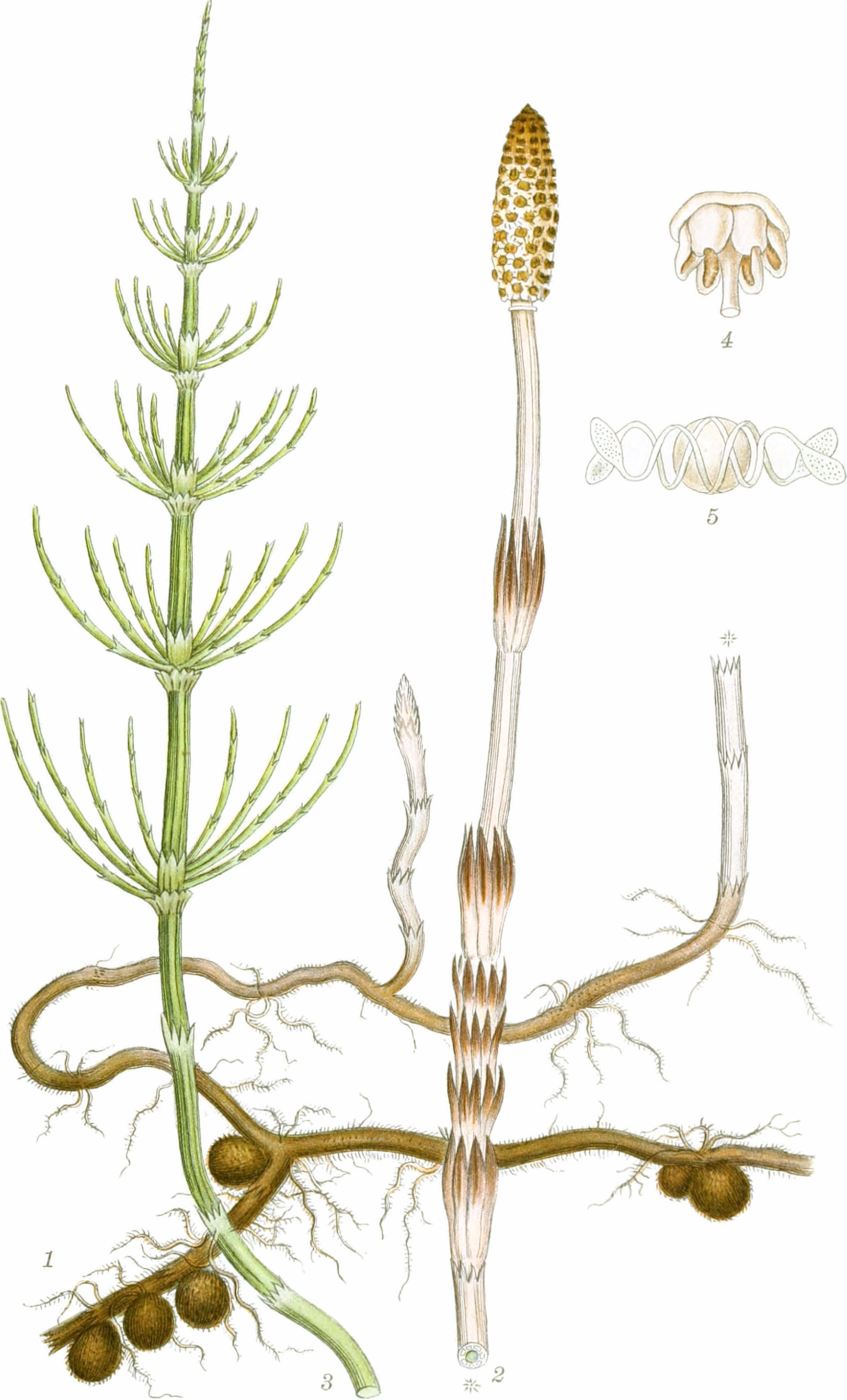 Title: Billeder af nordens flora Year: 1917 (1910s) Authors: Mentz, August, 1867-1944; Ostenfeld, C. H. (Carl Hansen), 1873-1931 Subjects: Plants; Plants; Plants Publisher: København, G. E. C. Gad's forlag Text Appearing Before Image: 515 Text Appearing After Image: AGER-PADDEROKKE, equisetum arvense. ..aowrzELLS-'R.A.B.s